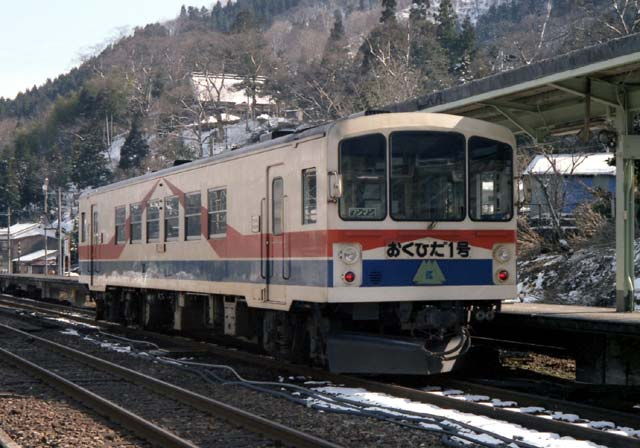 Kamioka Railway series KM100 No.101